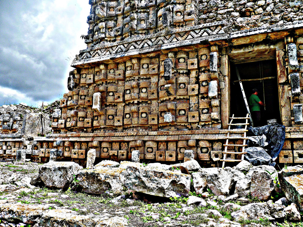 Codz Poop details